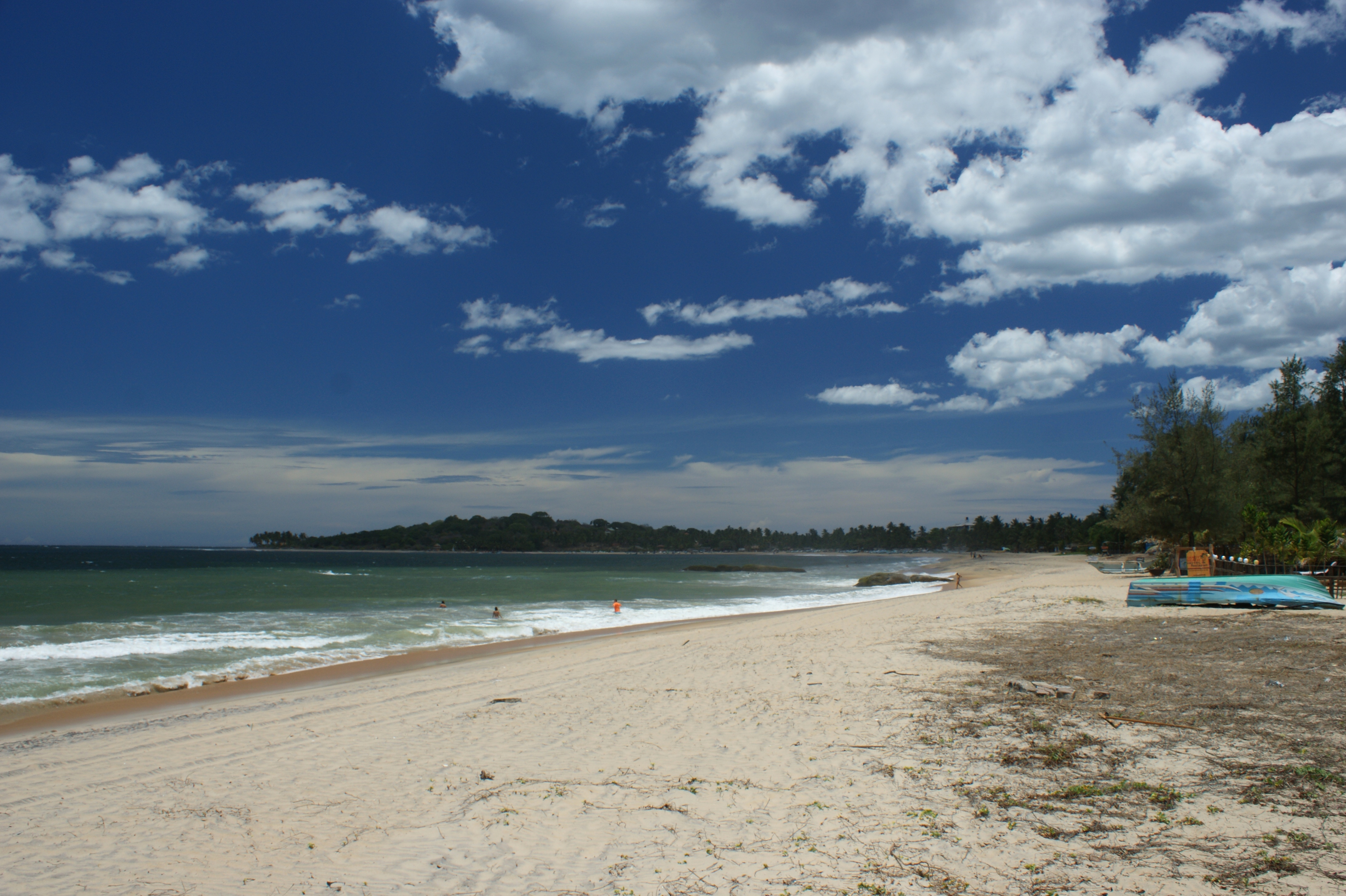 Beach of Arugam Bay (view from north to south)